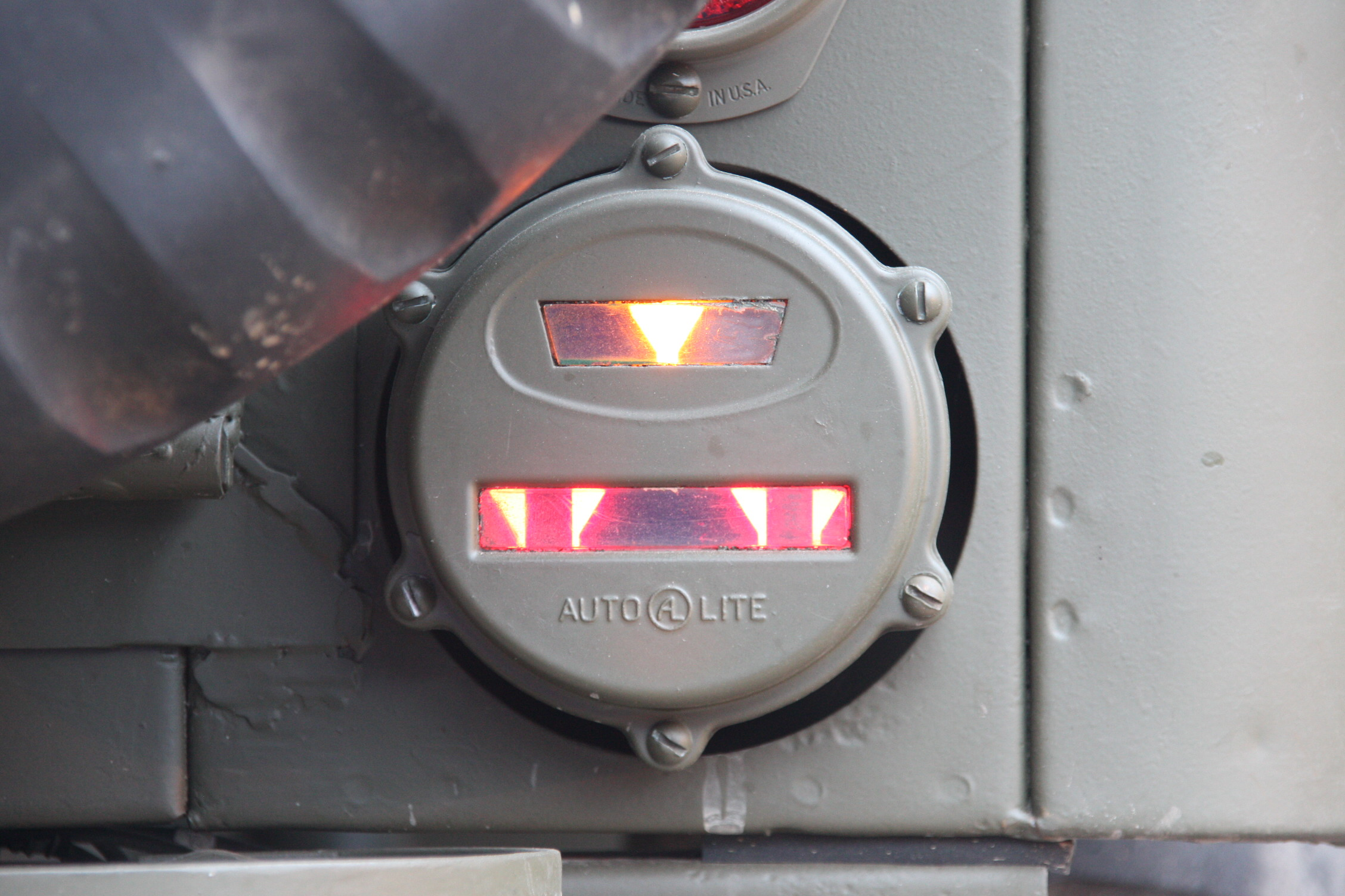 M38_Rear_Blackout_Light